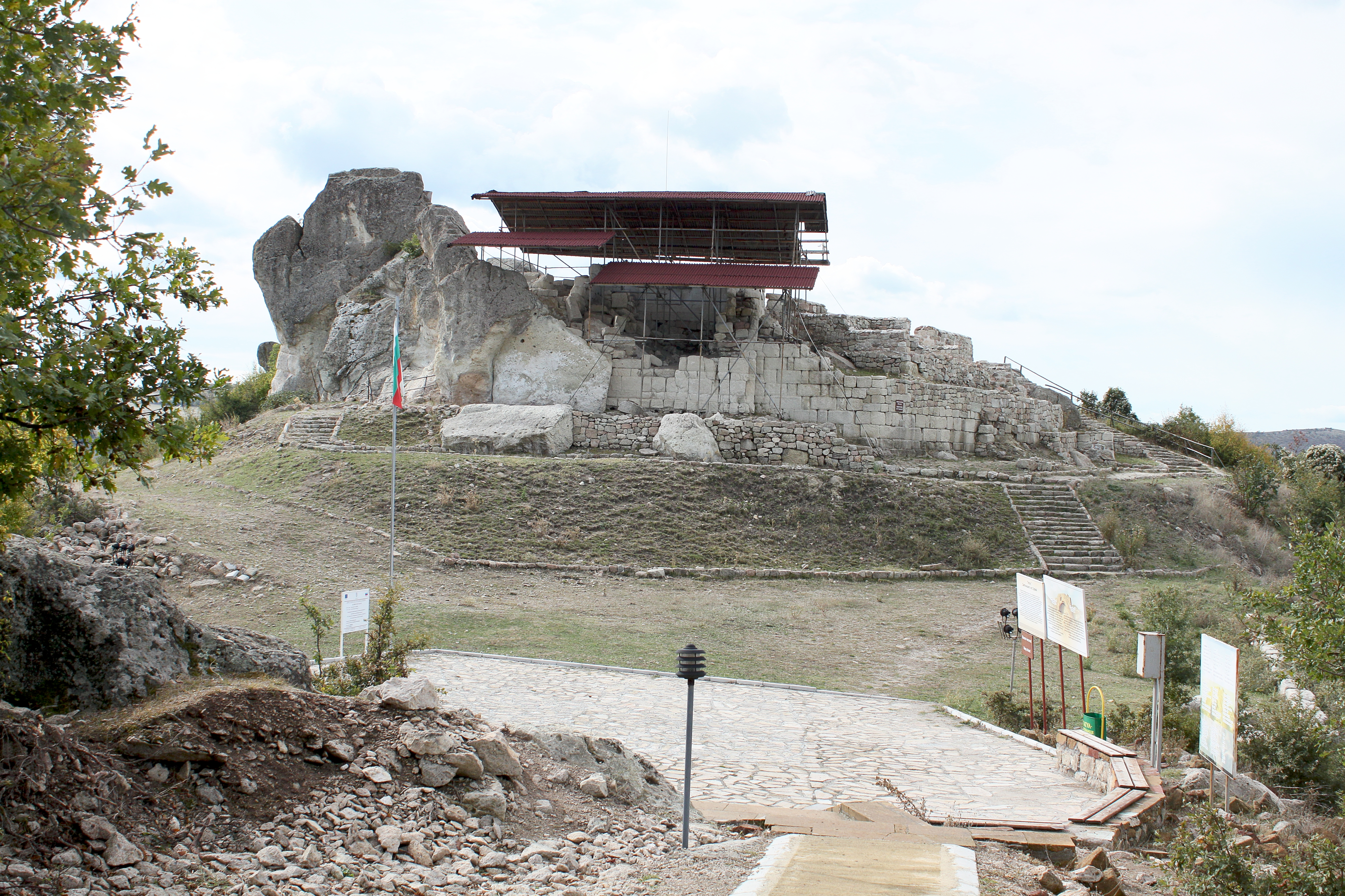 Thracian Tomb of Tatul and Tatul, a village in the Rhodope Mountains, Bulgaria